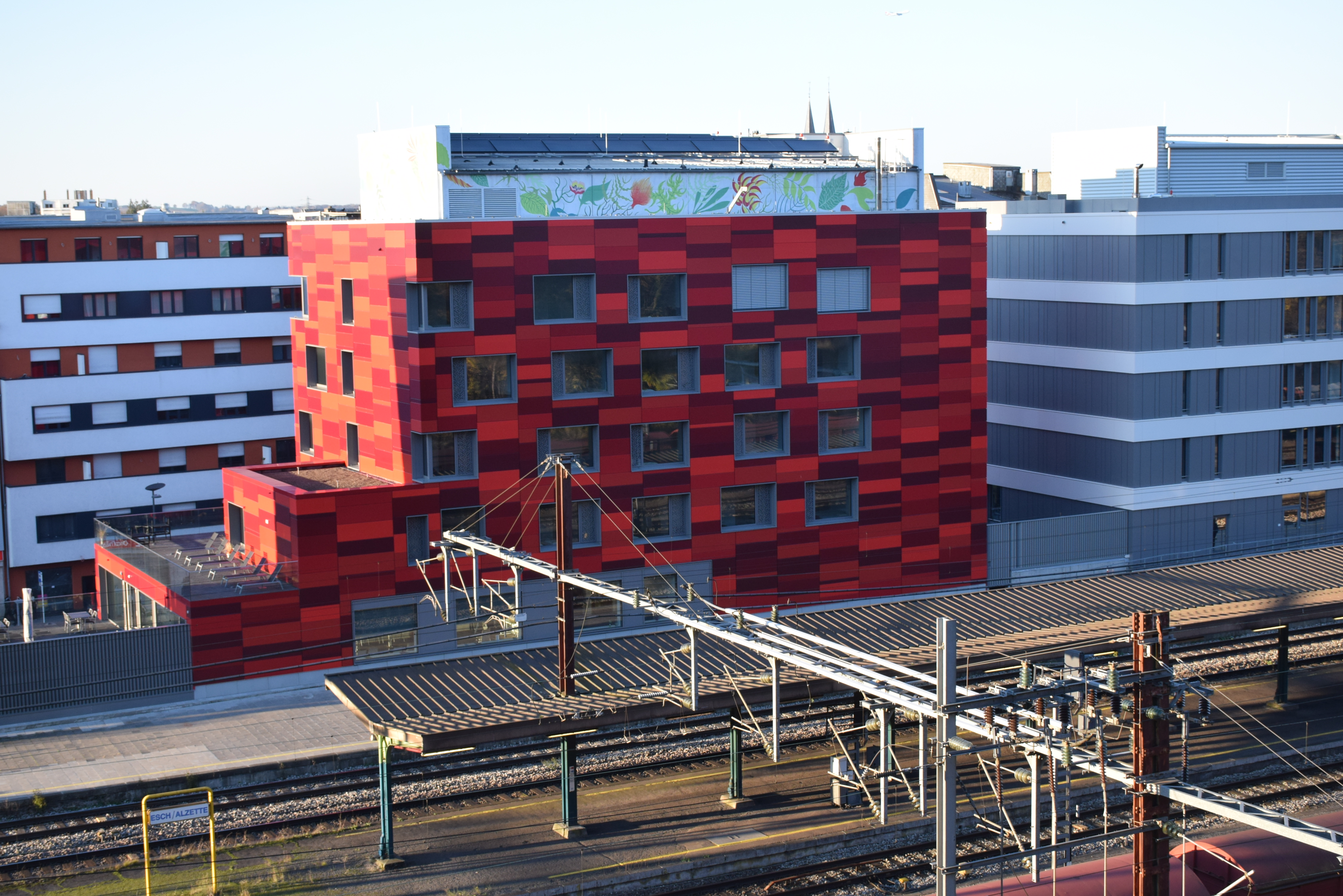 Youth hostel Esch-sur-Alzette